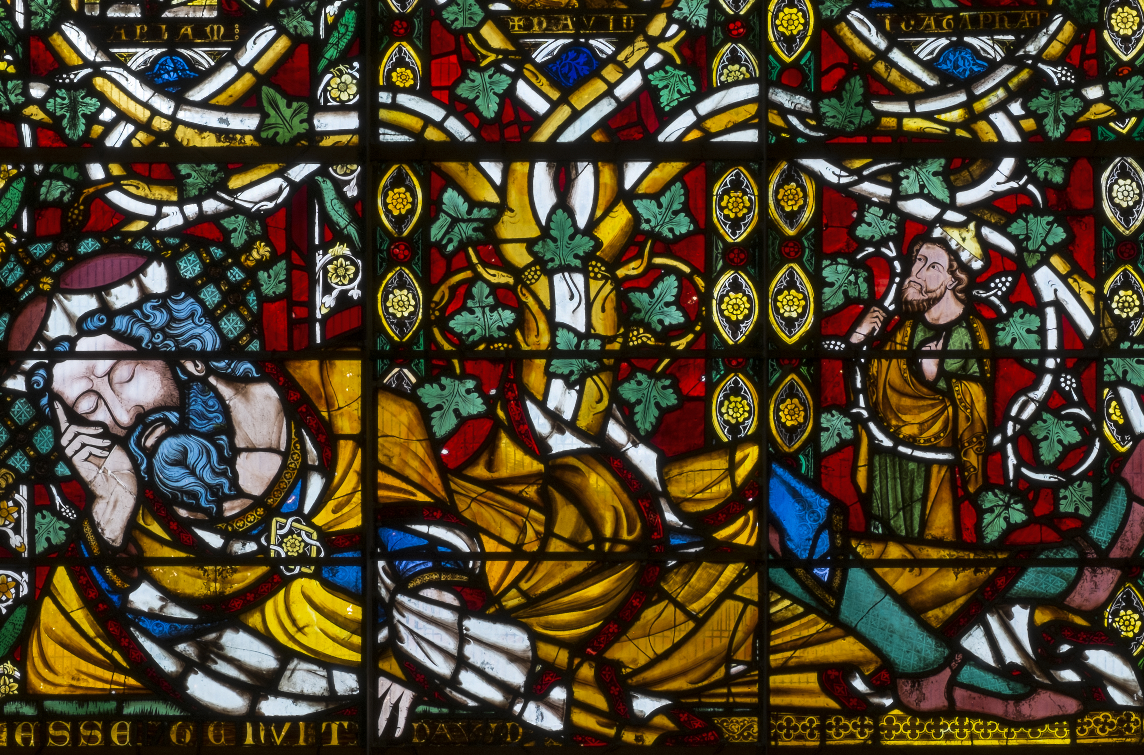 The world-famous fourteenth-century 'Jesse window'; filled with figures of Old Testament kings and prophets. Image of Jesse at the base of the Tree